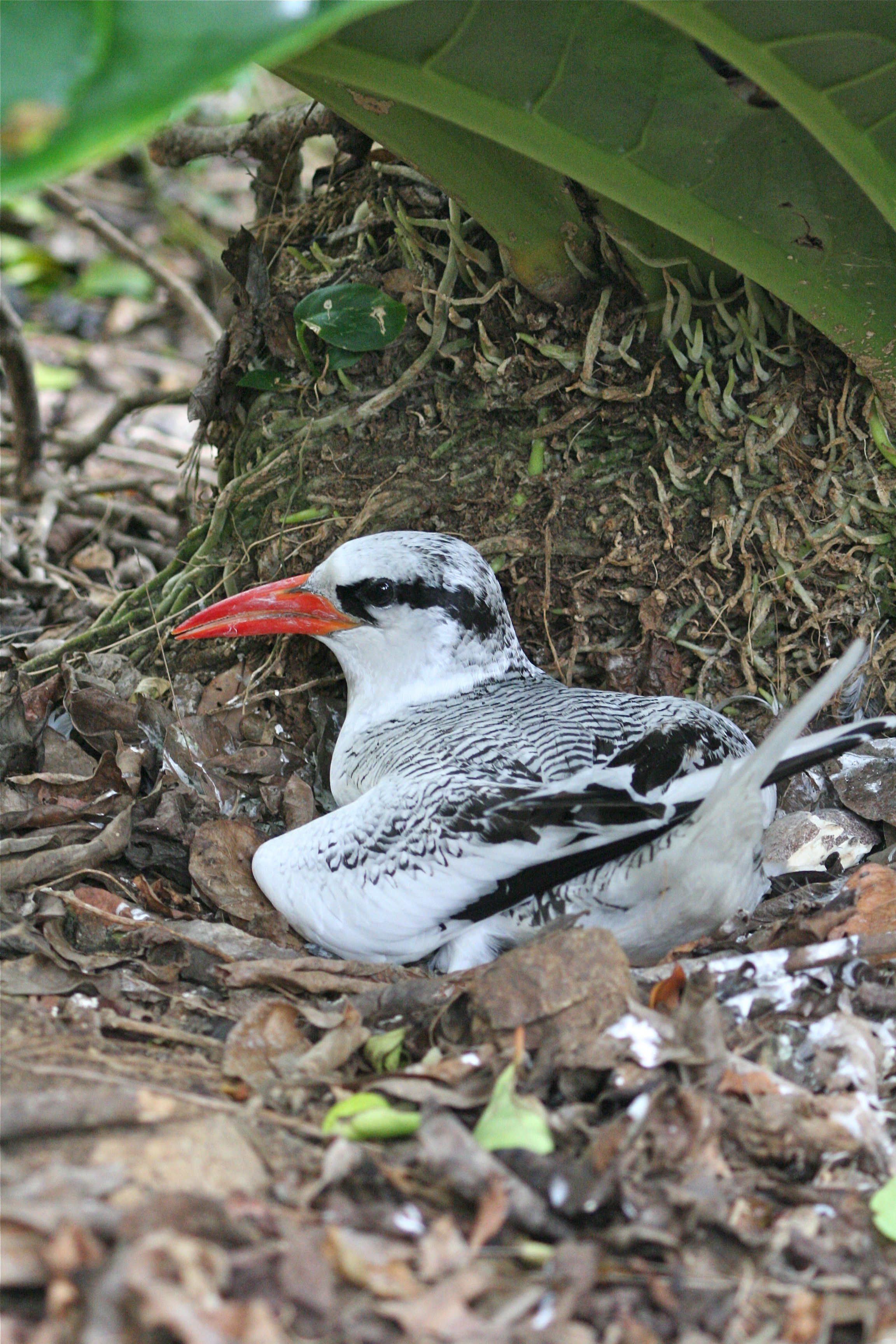 Red-billed Tropicbird on the nest (Phaeton aethereus mesonauta)